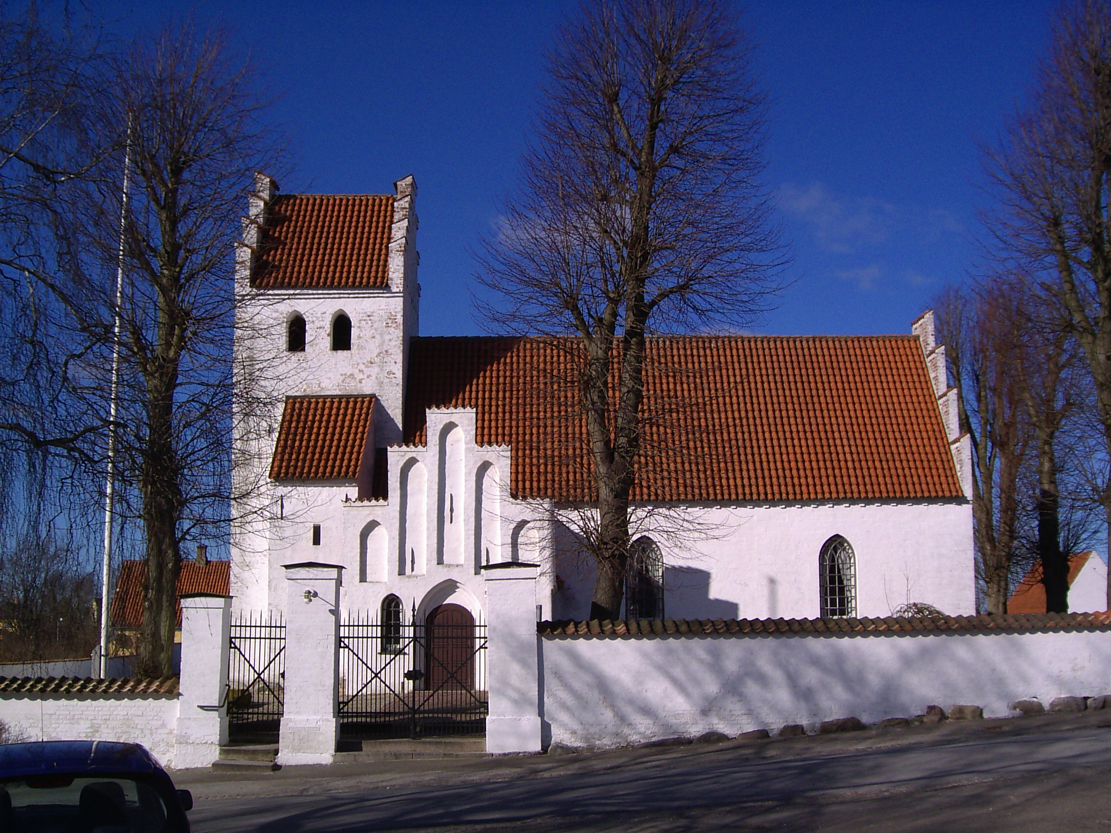 Store Tårnby Church, Store Tårnby parish, Municipality of Stevns, Region Sealand, Denmark.